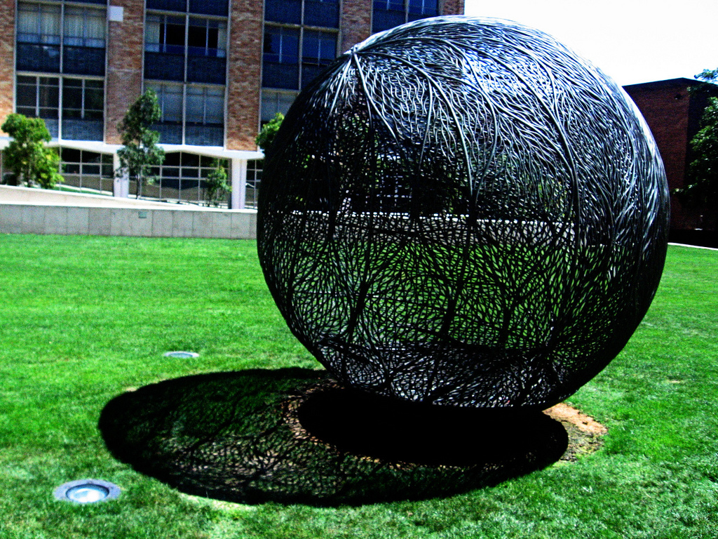 "Globe" (2002) by Bronwyn Oliver at UNSW in Sydney/Australia